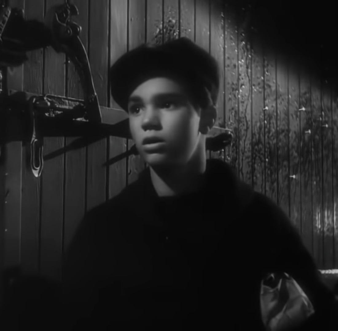 A screenshot of Darryl Hickman in the public domain film The Strange Love of Martha Ivers.